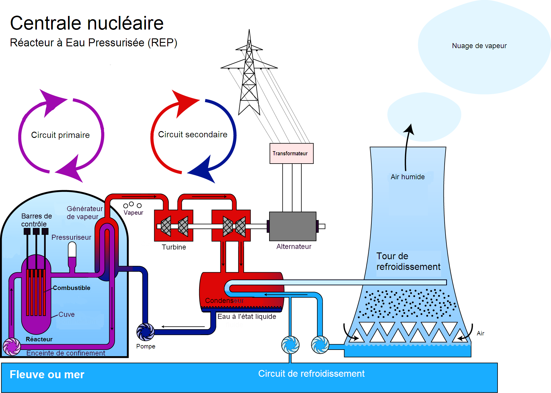 French scheme of nuclear power plant with a pressurized water reactor (PWR).